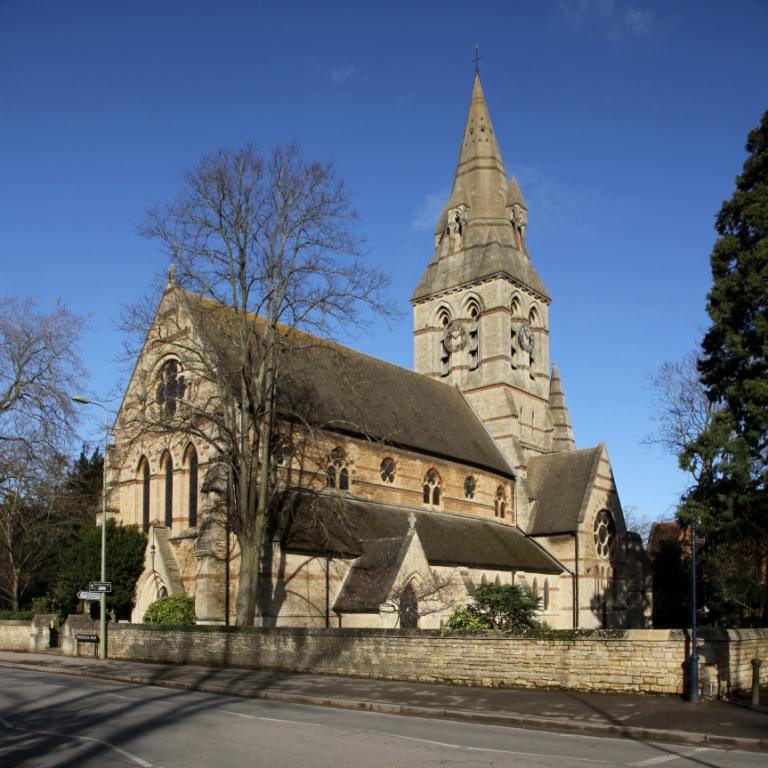 Former church of SS Philip and James, Woodstock Road, Oxfordshire, seen from the south